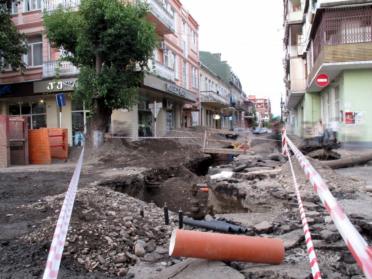 photos from batumi, georgia, as part of trip documented on